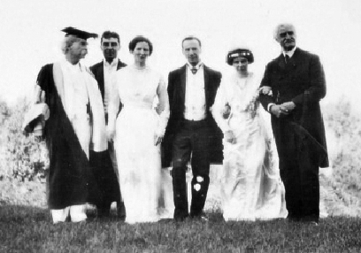 Snapshot taken at the marriage of Clara Clemens and Ossip Gabrilowitsch from left to right: Samuel Clemens, Jervis Langdon, Jean Clemens, Ossip Gabrilowitsch, Clara Clemens, Rev. Dr. Joseph Twichell